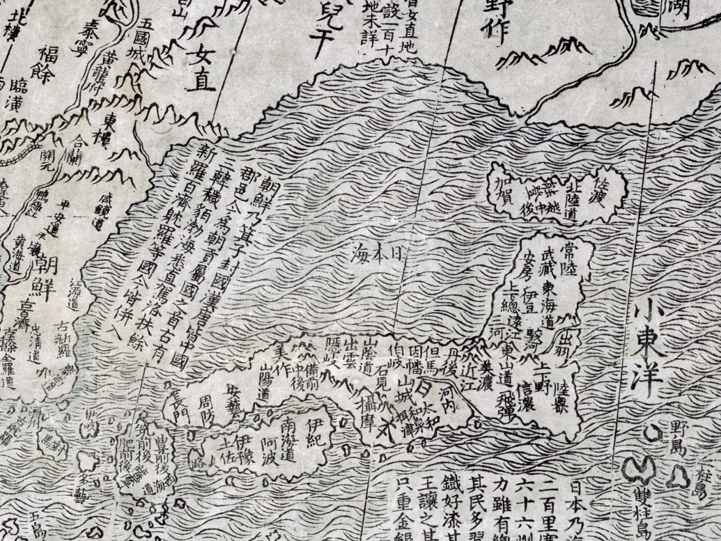 The name "Sea of Japan" in the map "Kunyu Wanguo Quantu"(1602) drawn up by Matteo Ricci